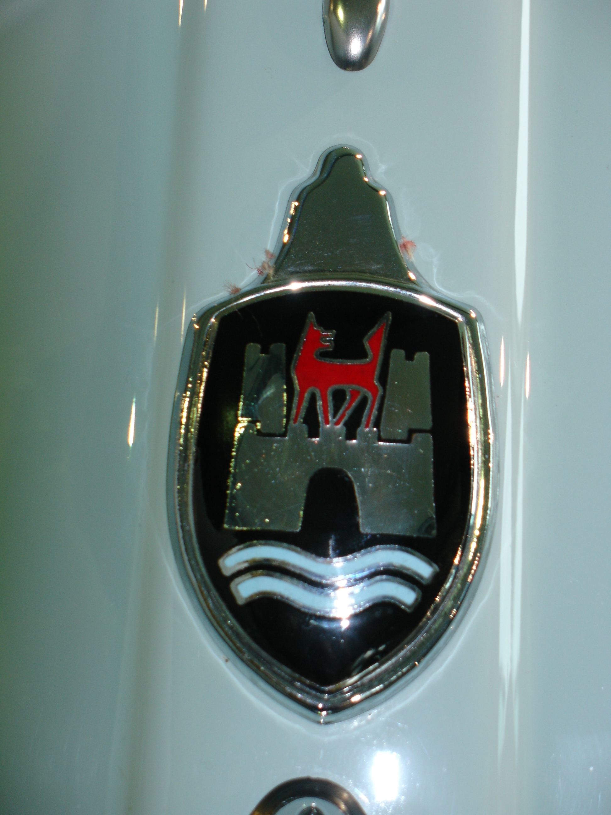 Volkswagen emblem from the front of a Type 1. The embelm depicts the castle Wolfsburg. The emblem was taken out of use in 1962.